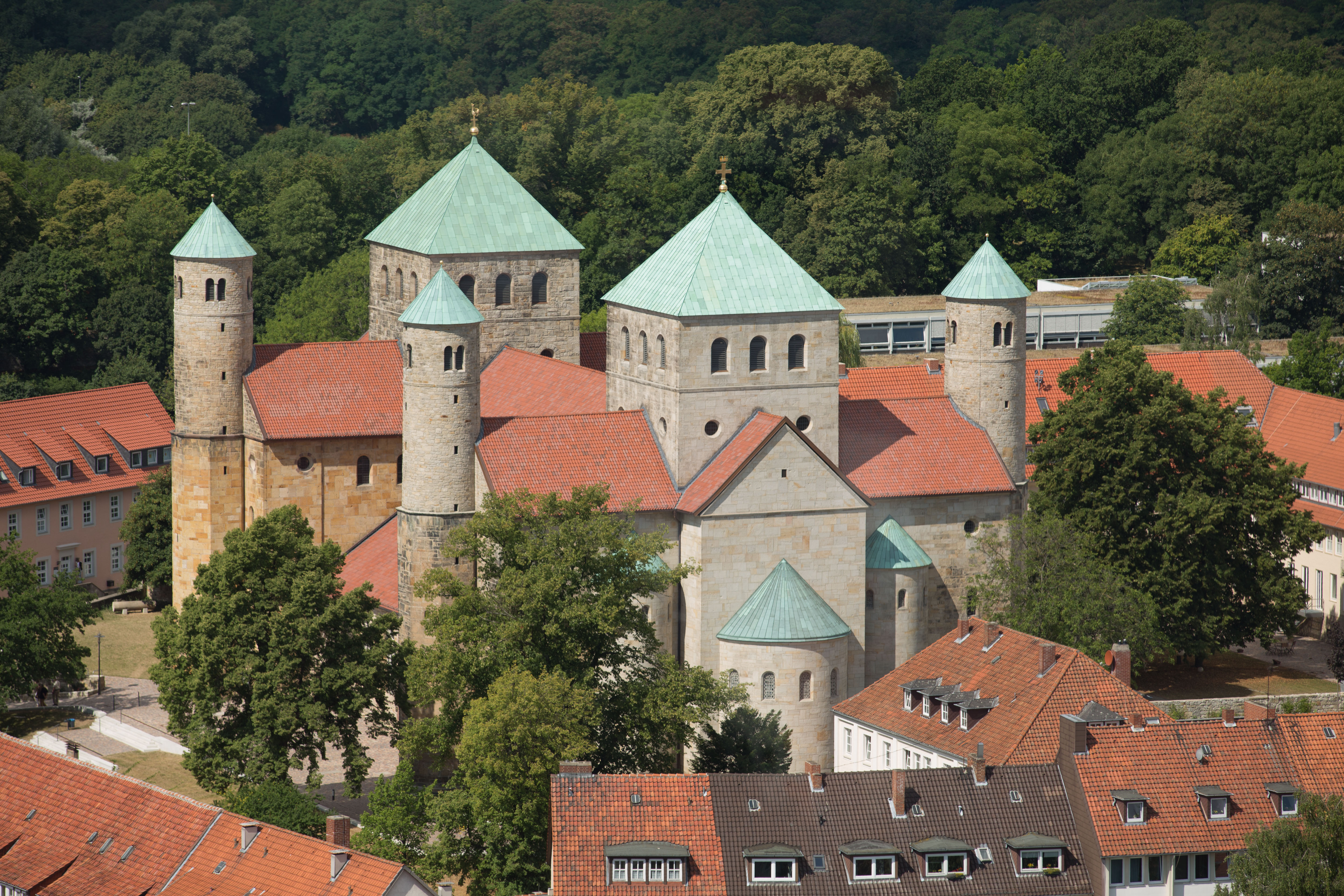 St. Michael's Church in Hildesheim (Germany) from the tower of St. Andrew